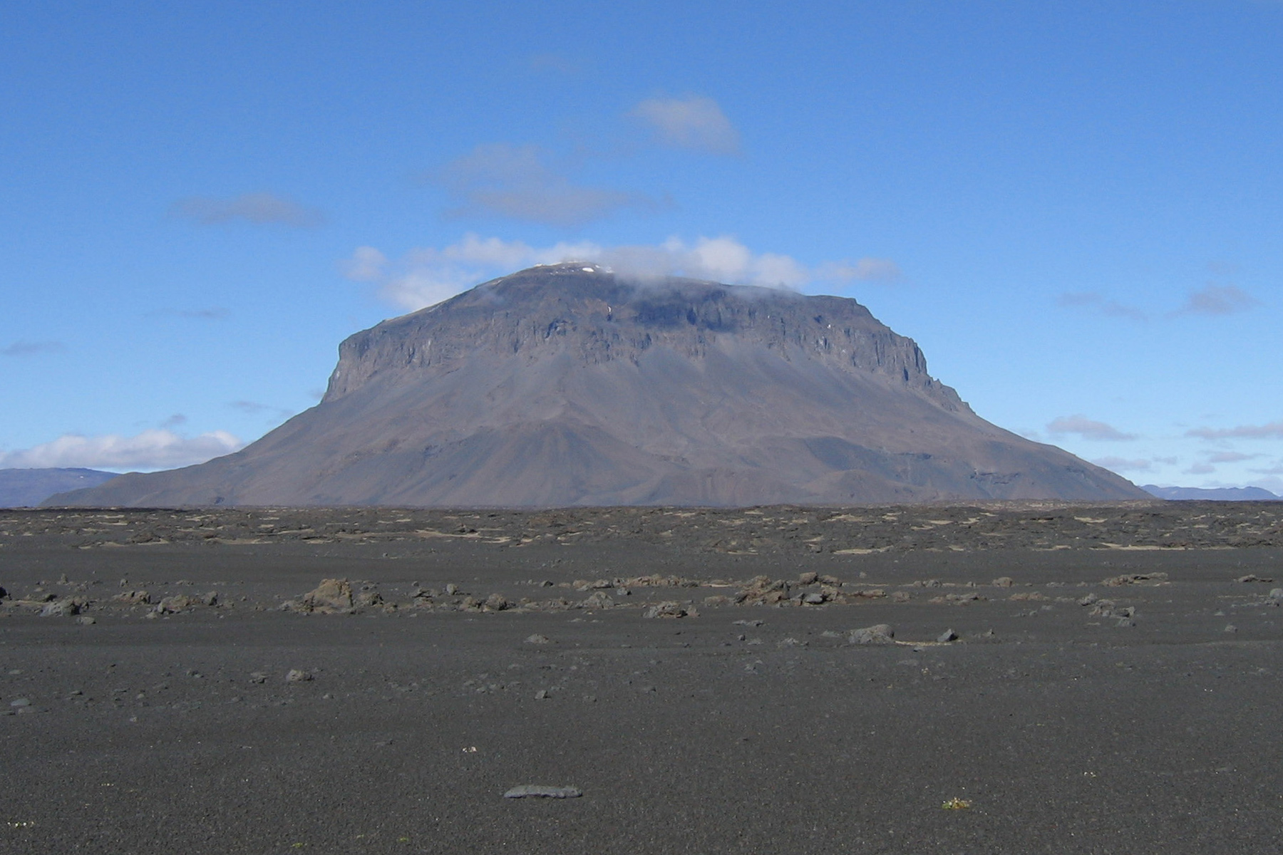 The mountain Herðubreið, interior of Iceland, viewed from the southeast.